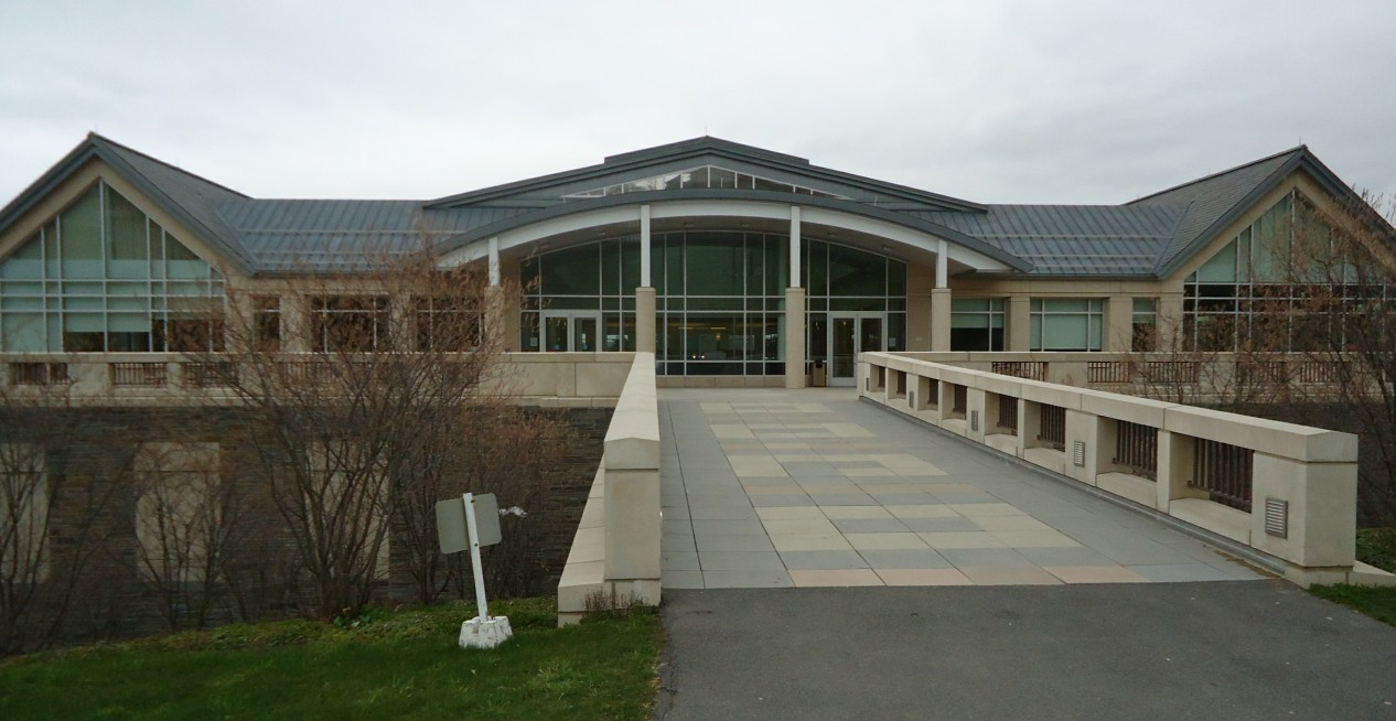 Case-Geyer Library, on the campus of Colgate University in Hamilton, New York.